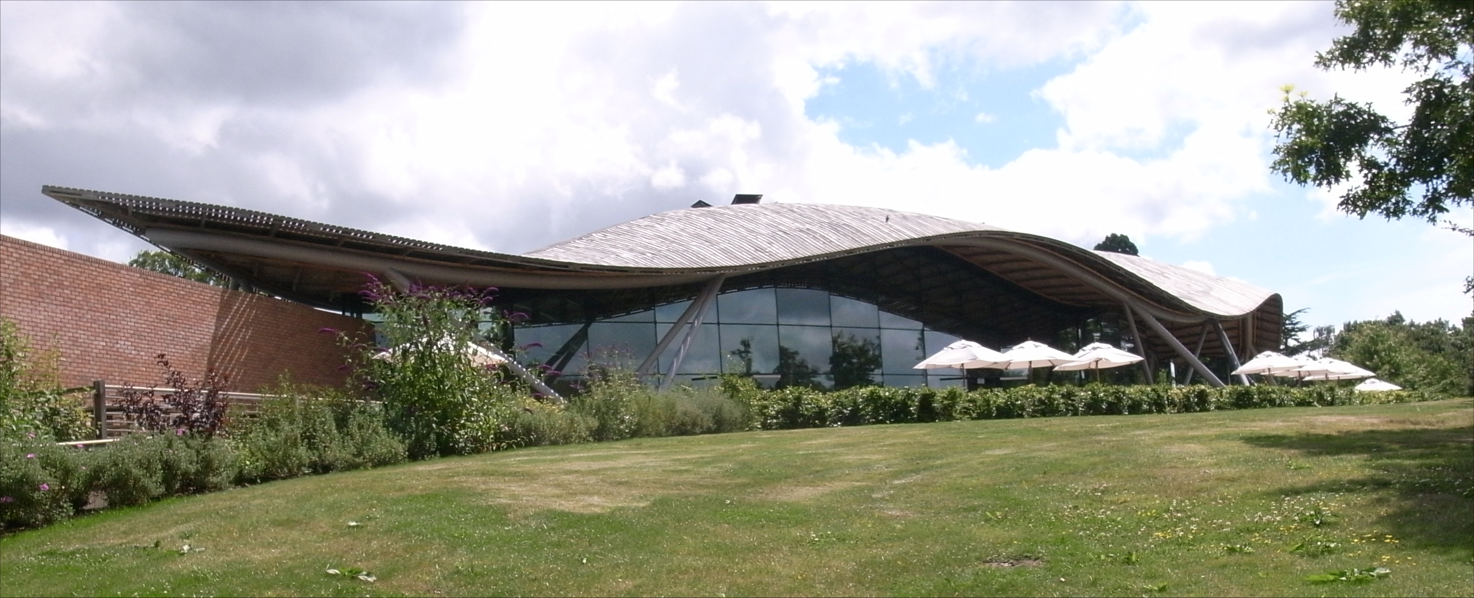 Rear (from the garden) view of the wooden gridshell-roofed Savill Building – entrance building to the Savill Garden in Windsor Great Park, Surrey, England.